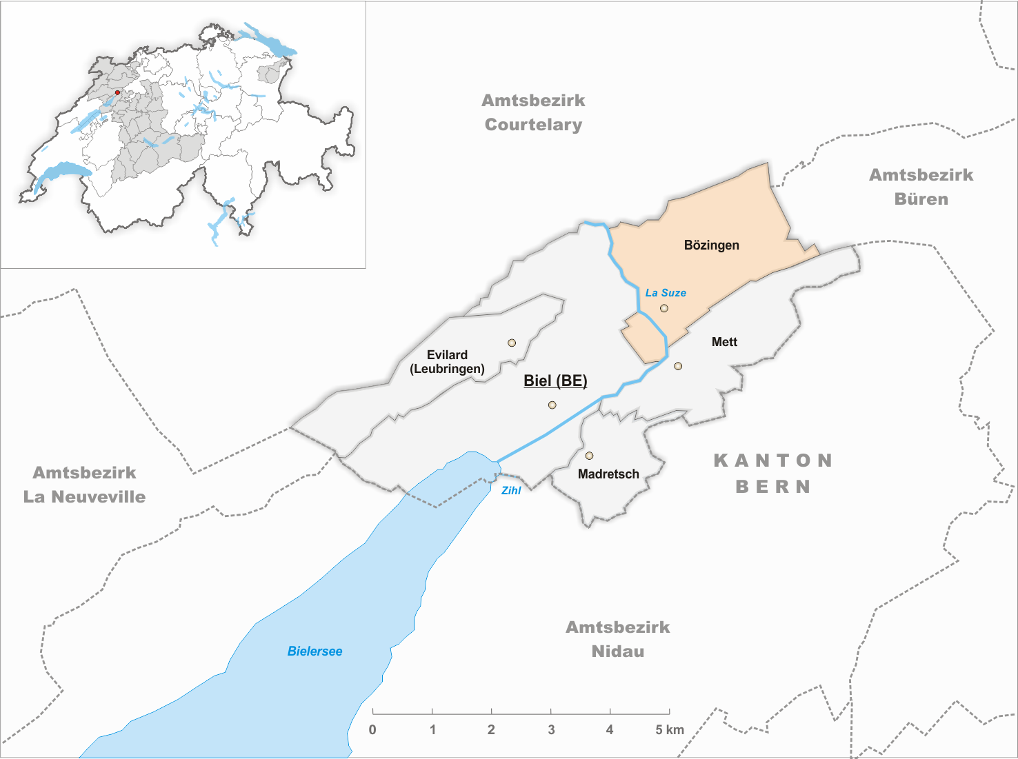 Municipality Bözingen